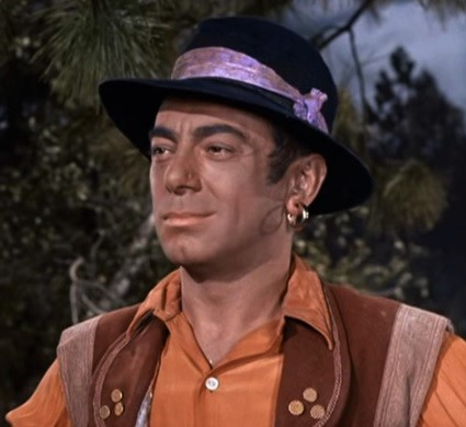 Arthur Batanides in the TV-series Bonanza, episode Dark Star - cropped screenshot